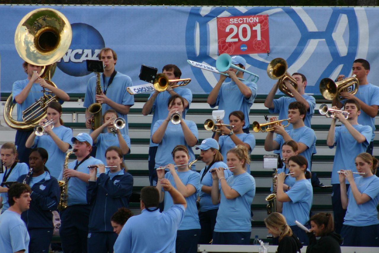 North Carolina Tar Heels pep band at the semifinal of the 2006 Women's College Cup on Friday, December 1st at SAS Soccer Park in Cary, NC